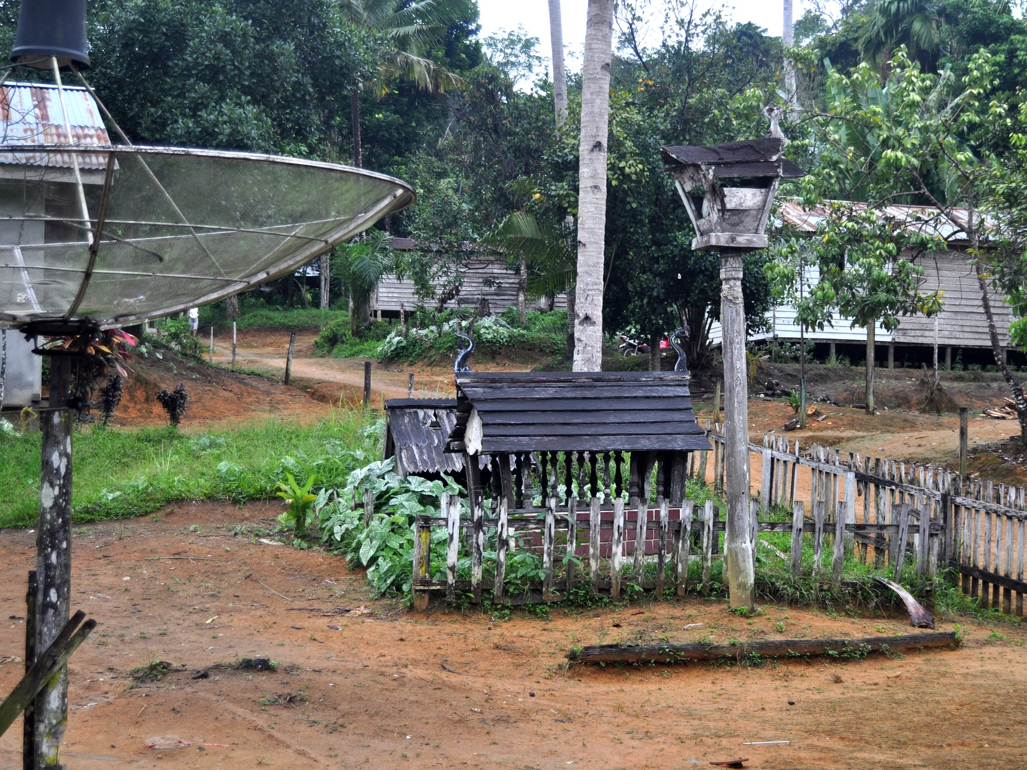 Sandung, a traditional bonehouse of Dayak tribe, side by side with a tomb. From Ketapang, West Kalimantan, Indonesia.